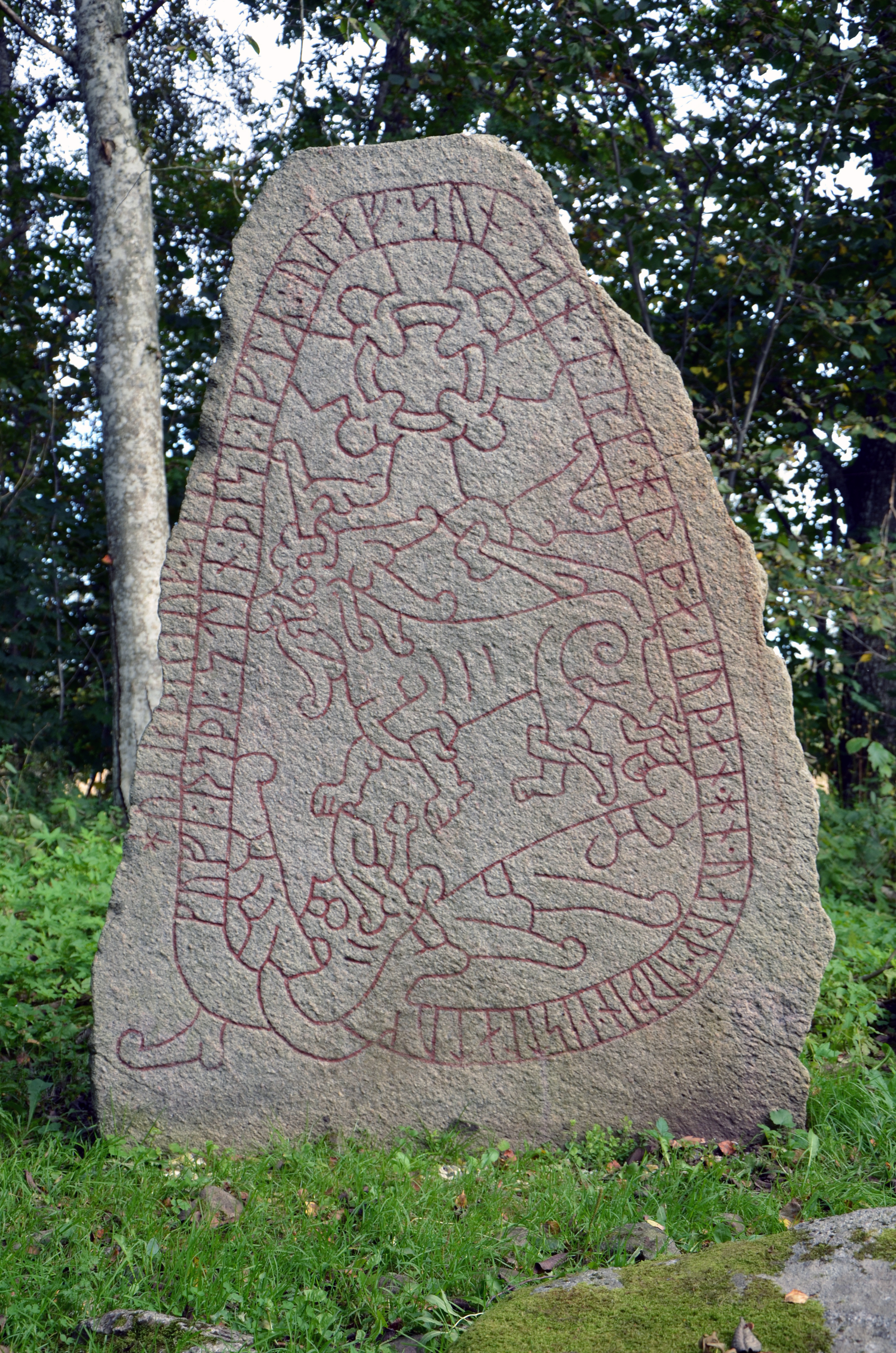 Olsbrostenen or Alvaredsstenen bei Åsarp , Vg 181 kufi : rsþi : stin : þesi : eftR : ulaf : sun : sin * trk * hrþa * kuþan * hn * uarþ * trbin * i * estlatum * hu(a)rþ(r) * iuk * s--- "Gufi raised this stone in memory of Ólafr, his son, a very good valiant man. He was killed in Estonia. Hávarðr(?) cut the stone."